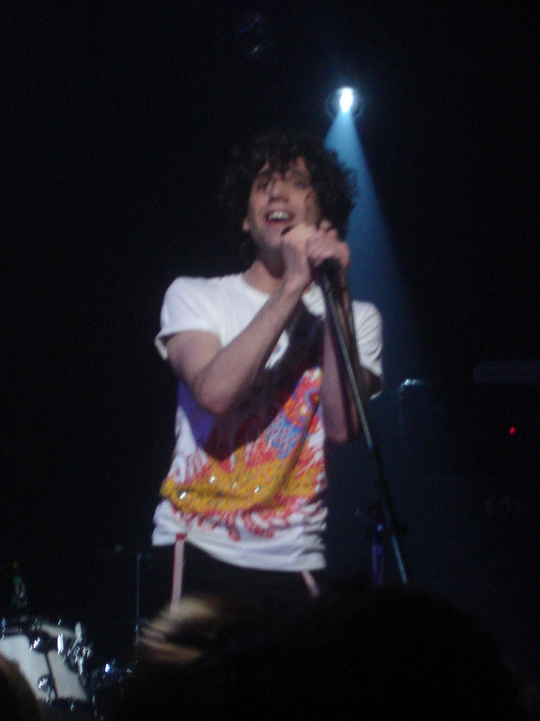 Mika during a concert at The Troubadour, in March 2007